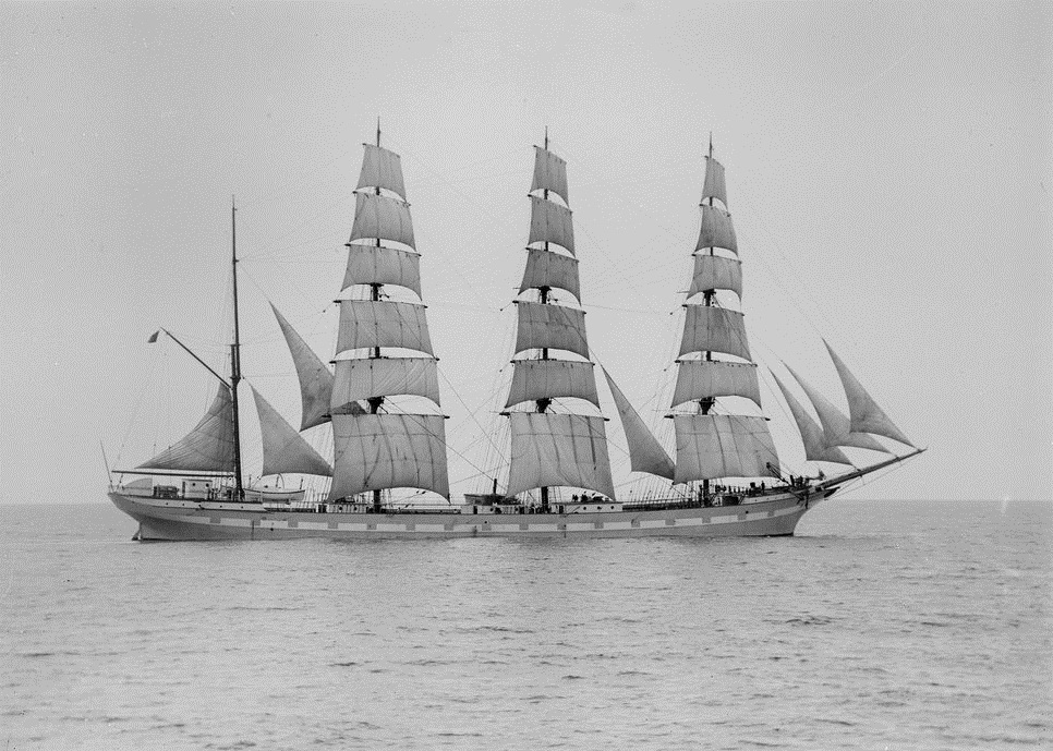 The Scotish four masted barque „Archibald Russel“ was build 1905 in Greenock. Gustaf Erikson bought in the ship 1923.